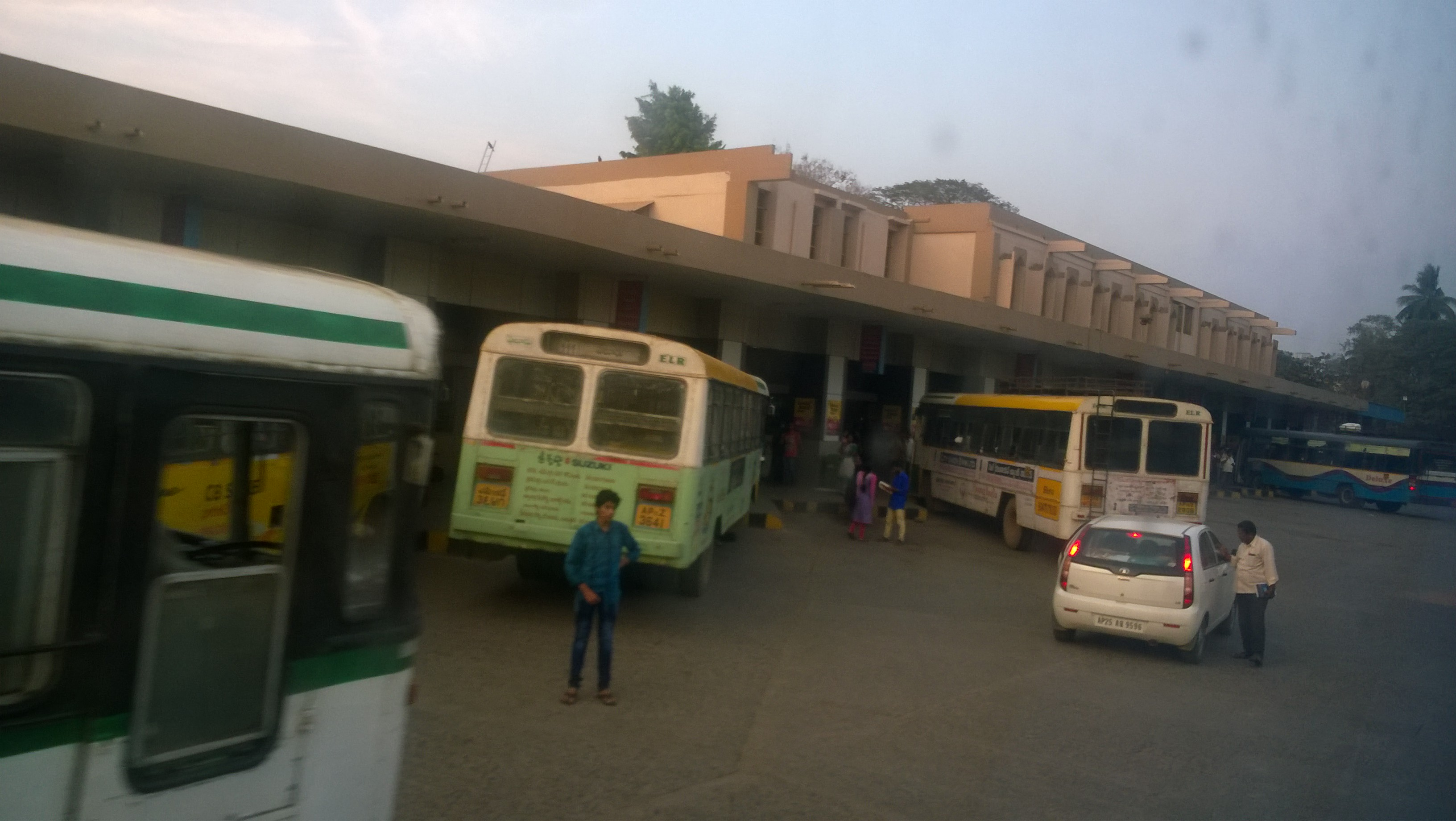 Eluru new bus station